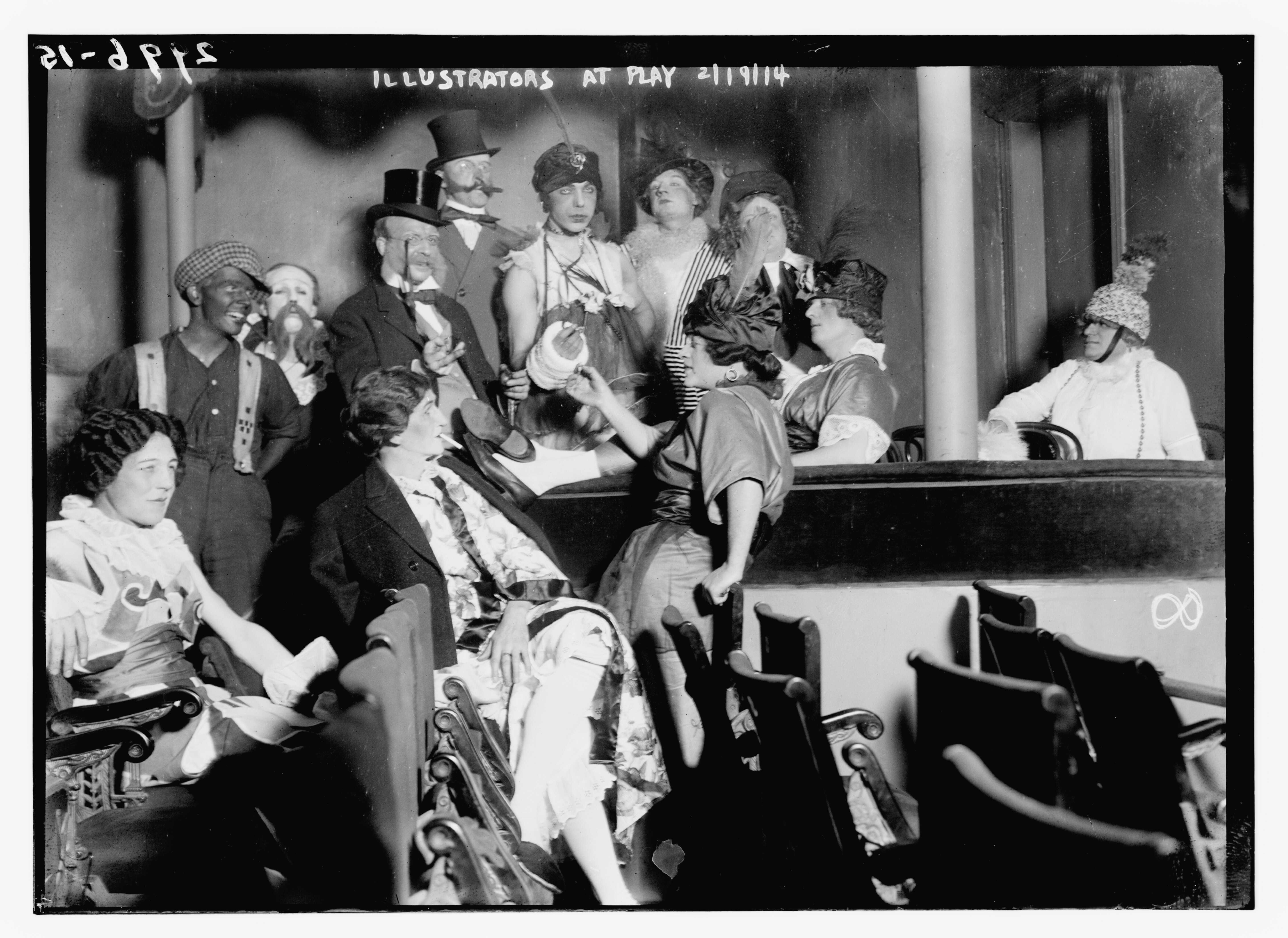 Society of Illustrators members at the Berkeley Theater in Manhattan at a play on February 19, 1914 1 negative : glass ; 5 x 7 in. or smaller. Notes: Title from unverified data provided by the Bain News Service on the negatives or caption cards. Forms part of: George Grantham Bain Collection (Library of Congress). Format: Glass negatives. Repository: Library of Congress, Prints and Photographs Division, Washington, D.C. 20540 USA, General information about the Bain Collection is available at Persistent URL: Call Number: LC-B2- 2996-15